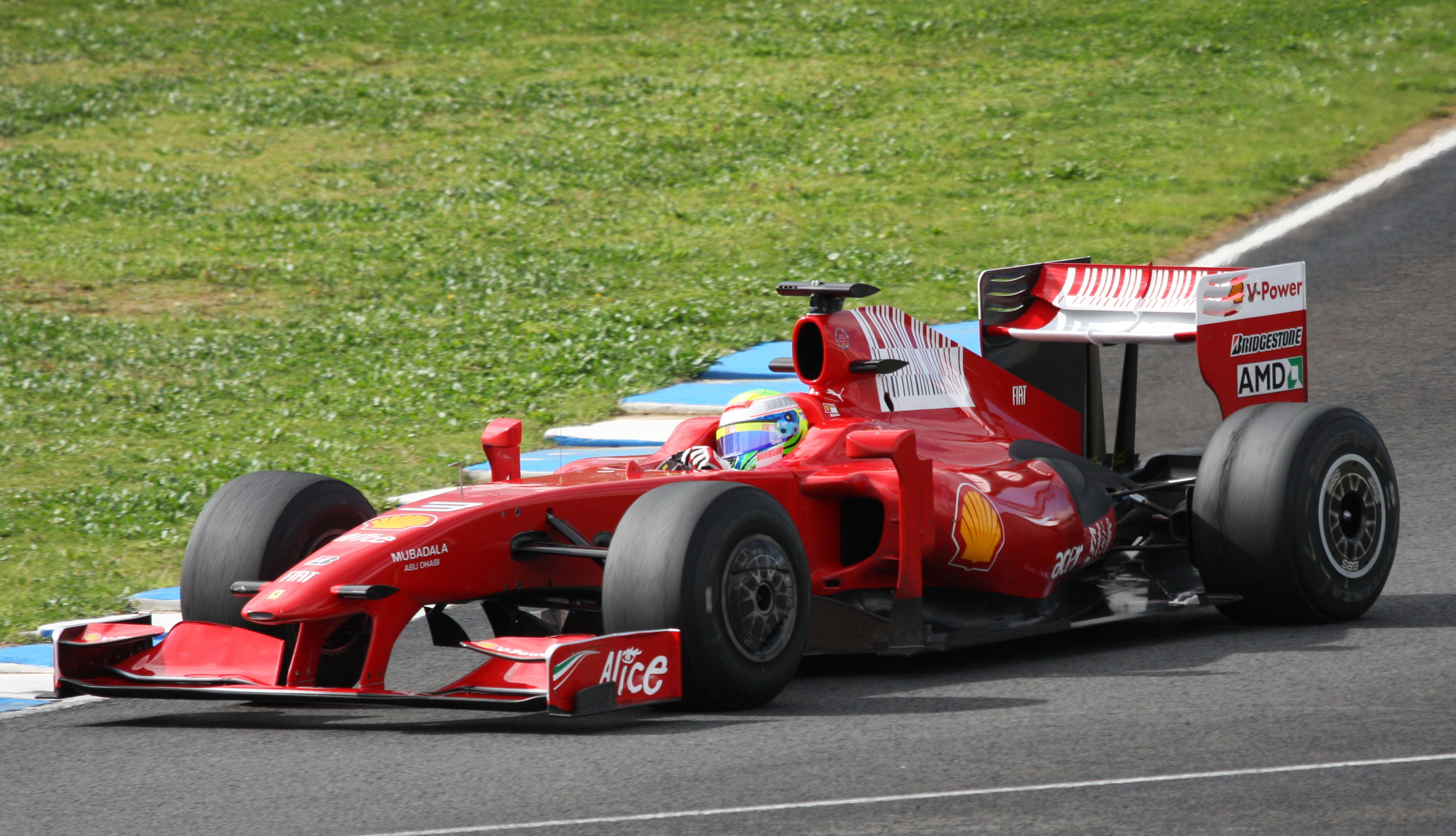 Felipe Massa in the Ferrari F60, F1 testing session, Jerez 03_Mar_2009